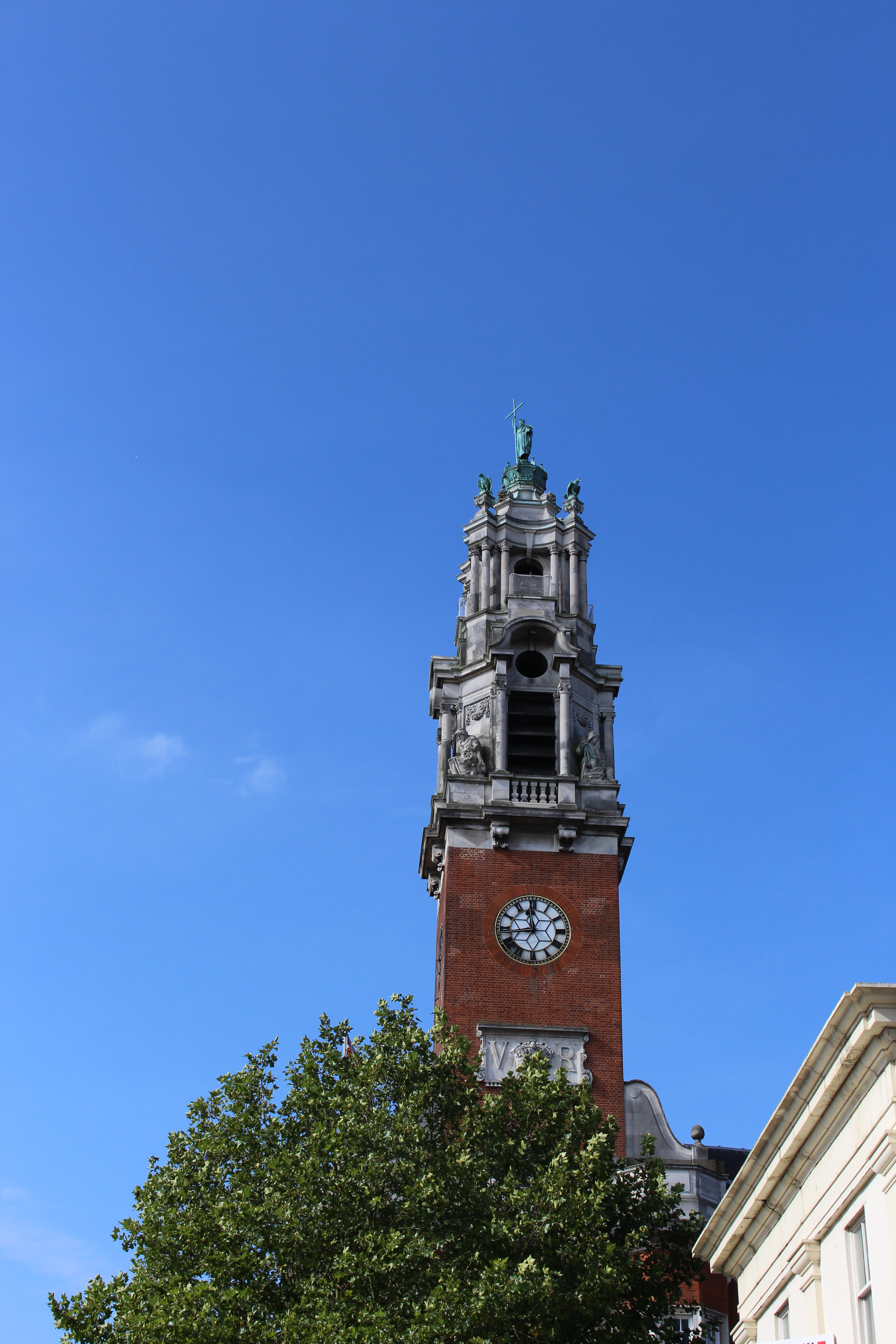 Town Hall